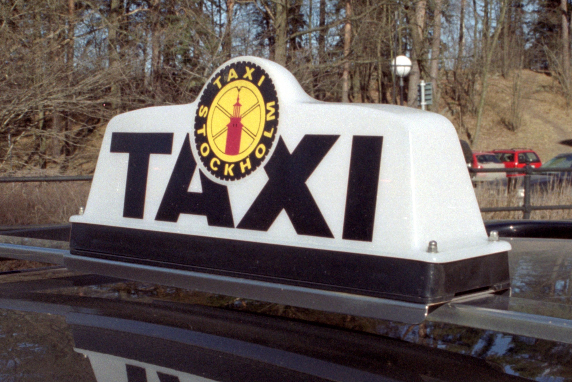 Taklampa från Taxi Stockholm